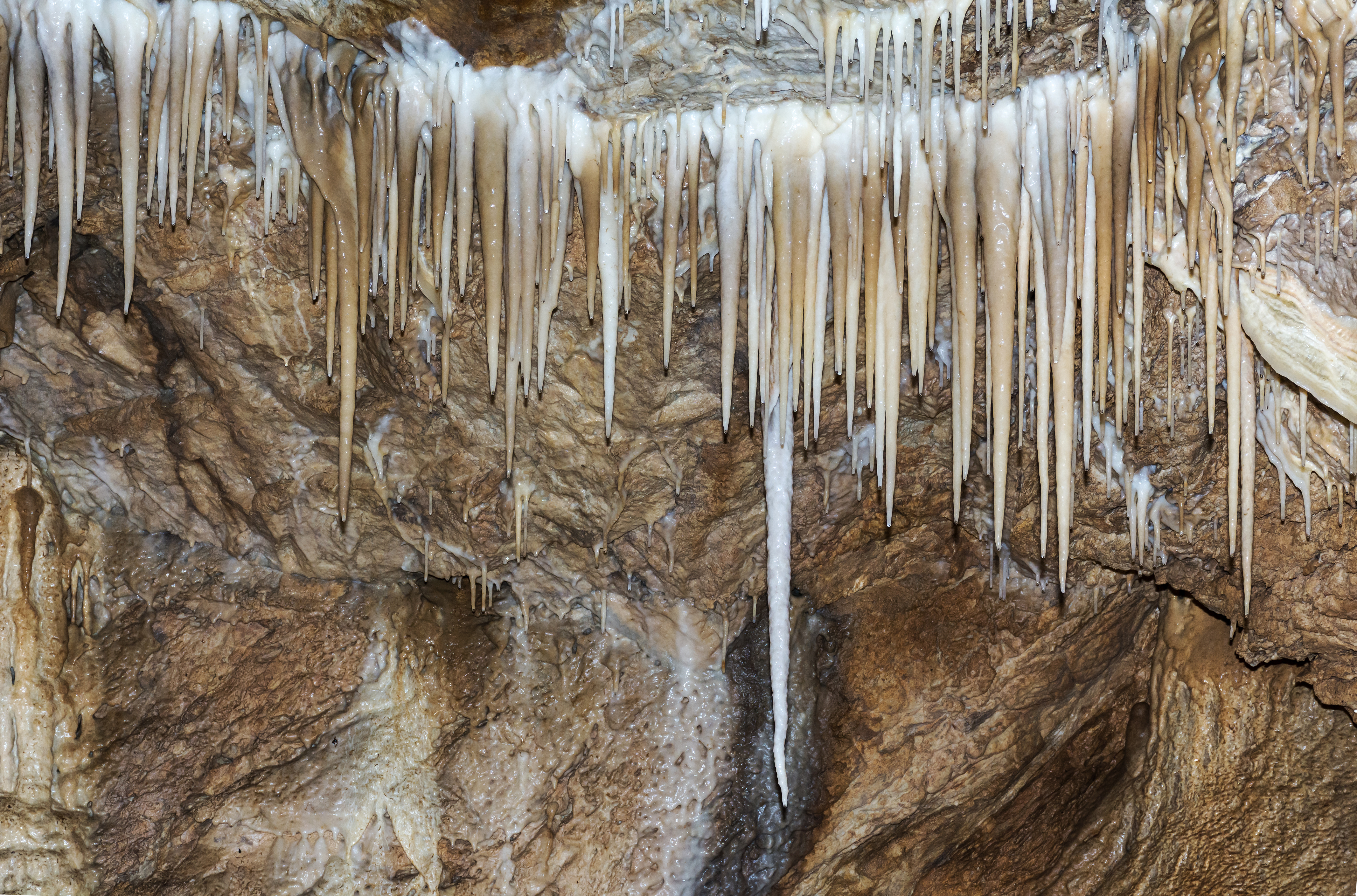 Bear Cave in Kletno (Lower Silesia, Poland), stalactites This is a photography of Natura 2000 protected area with ID PLH020016